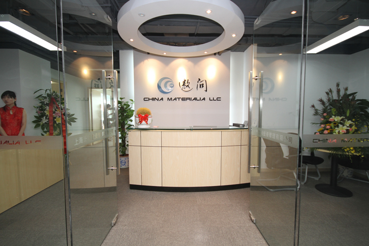 Shanghai Office China Materialia LLC